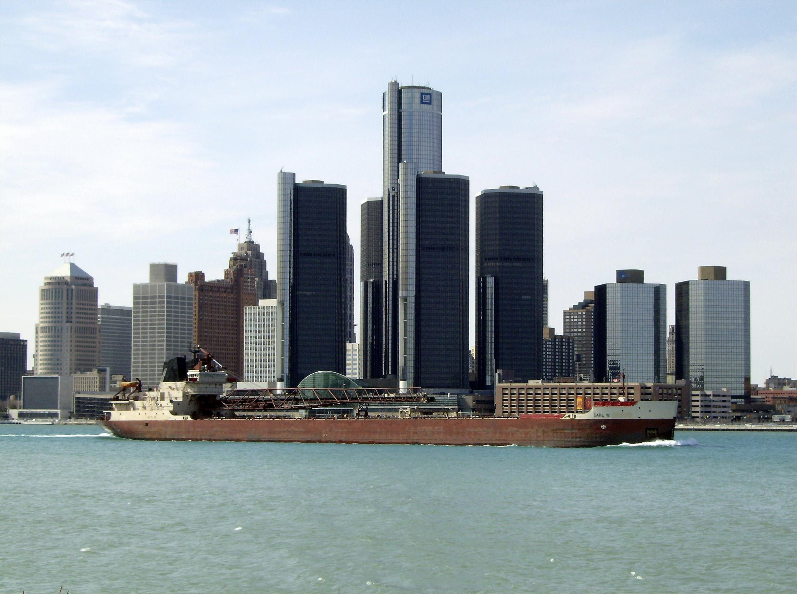 The Earl W. of the Wisconsin and Michigan Steamship Co. passing the Detroit riverfront including the Renaissance Center. At 630 feet long and 37 feet deep, the Earl W. is a medium-sized lake freighter designed to be able to reach smaller ports than the 1000-footers which are as much as 56 feet deep. Built in 1973, it has been called the Paul Thayer, Earl W. Oglebay, Earl W., and Manitowoc (as of 2009) self made